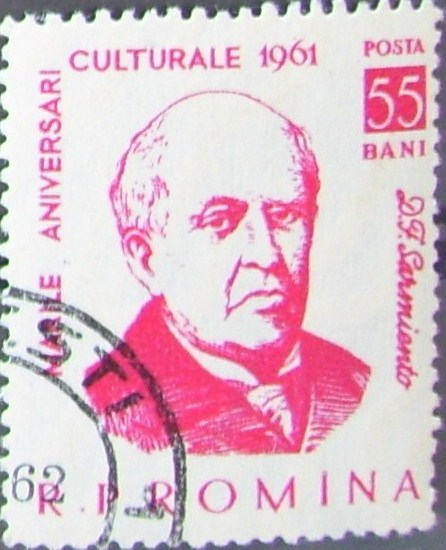 Romanian stamp displaying former president of Argentina Domingo F. Sarmiento on the front.